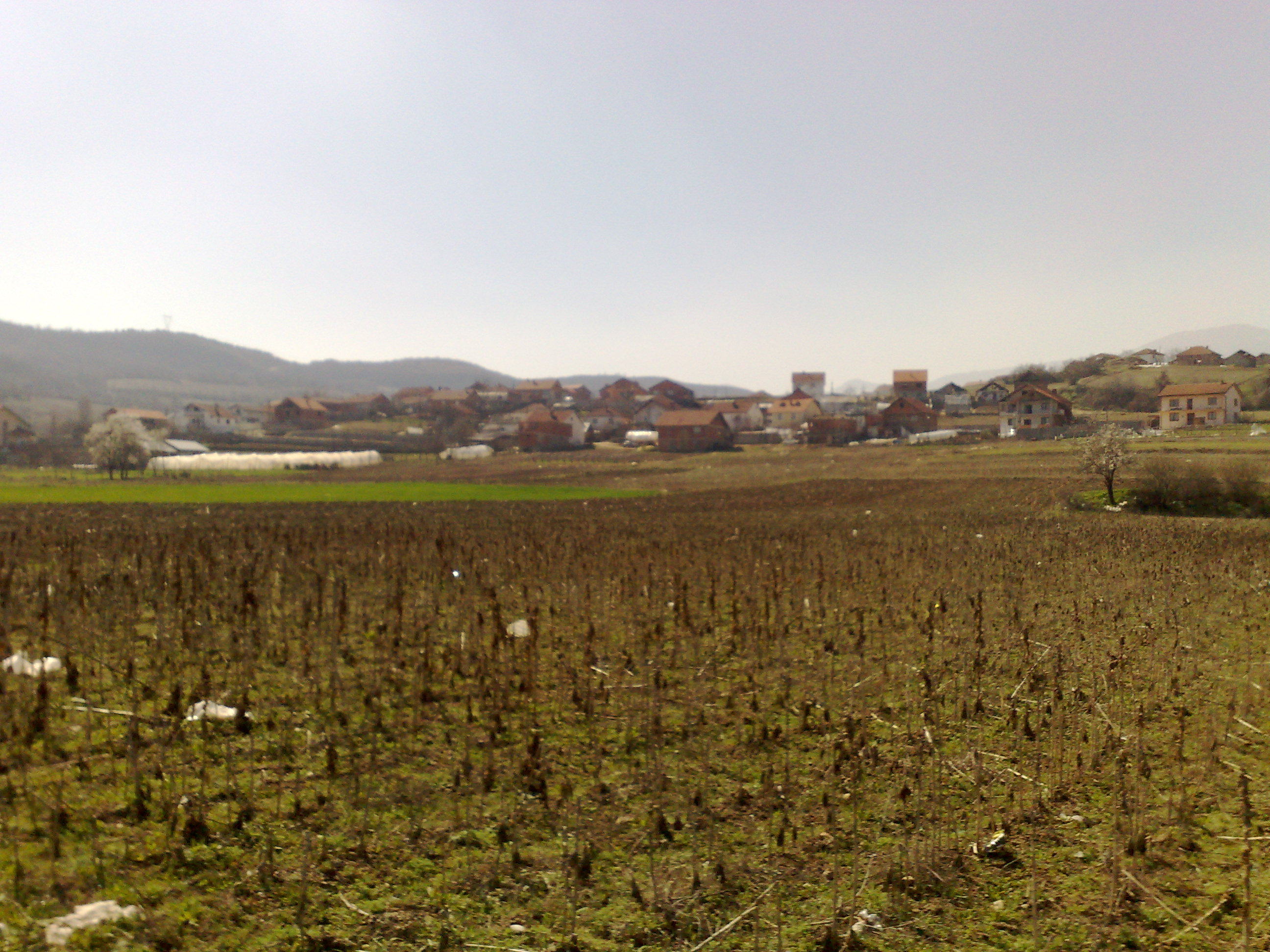 View of a part of the village Morani from the road Dracevo - Zelenikovo, Skopje region, Macedonia